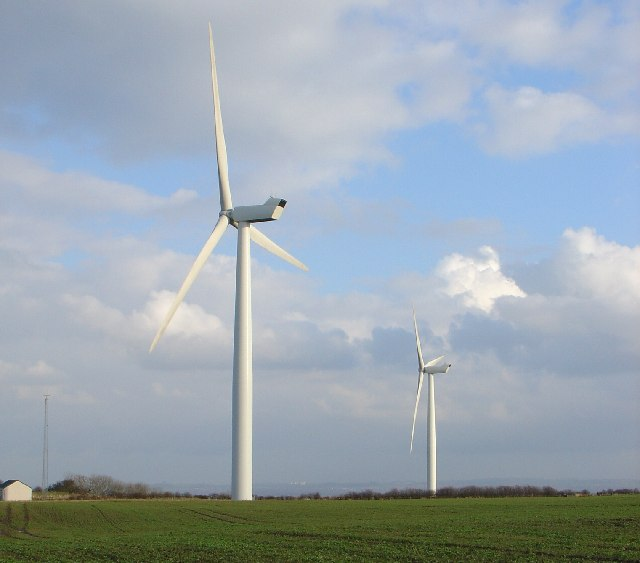 Craghead Windmills. Wind Farm on Wagtail Lane, above Craghead